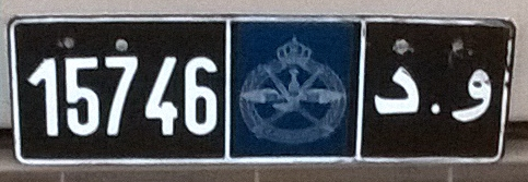 Omani vehicle registration plate, Armed Forces